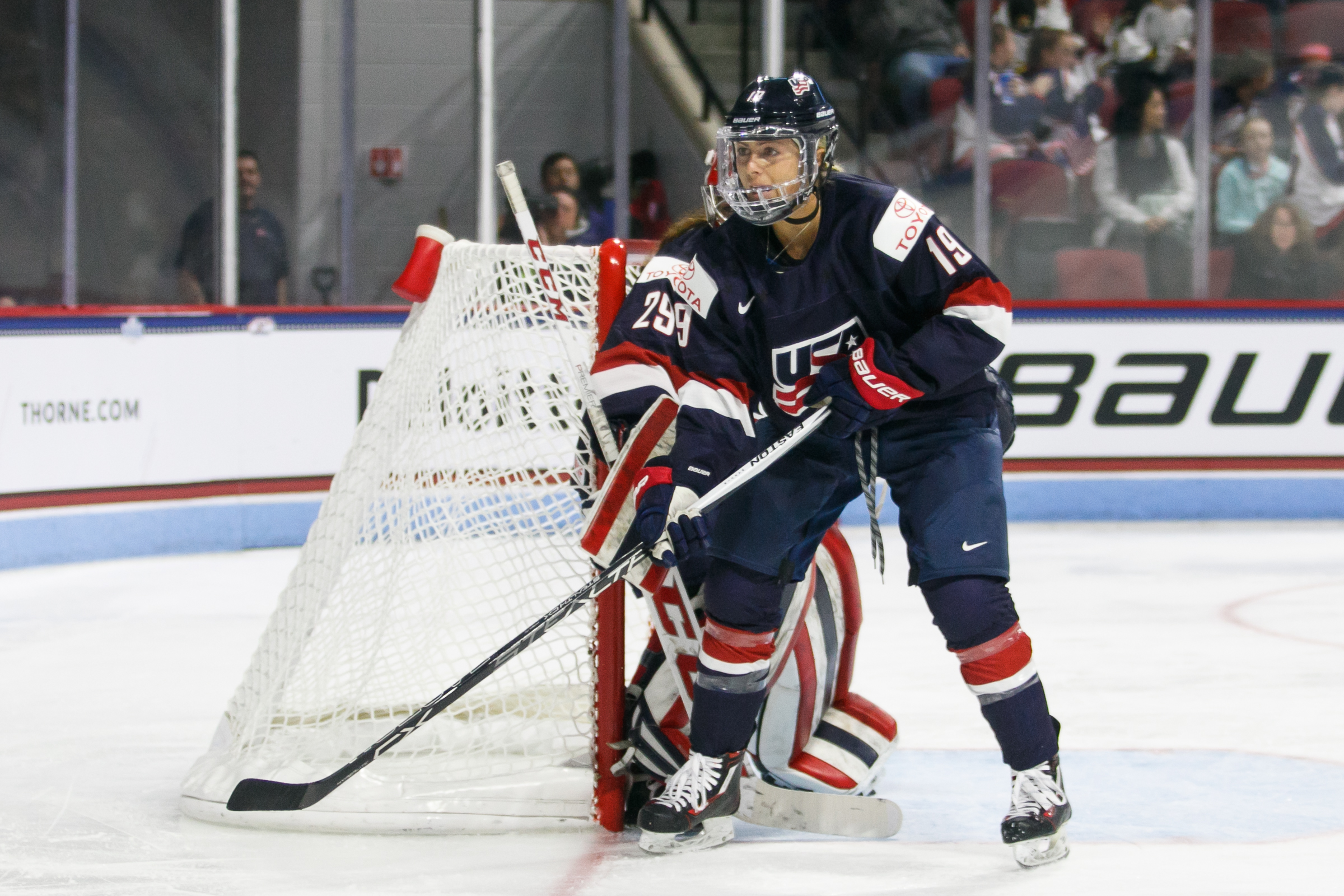 Gigi Marvin playing for Team USA in 2017